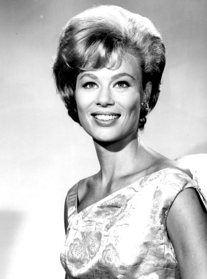 Publicity photo of Abby Dalton.